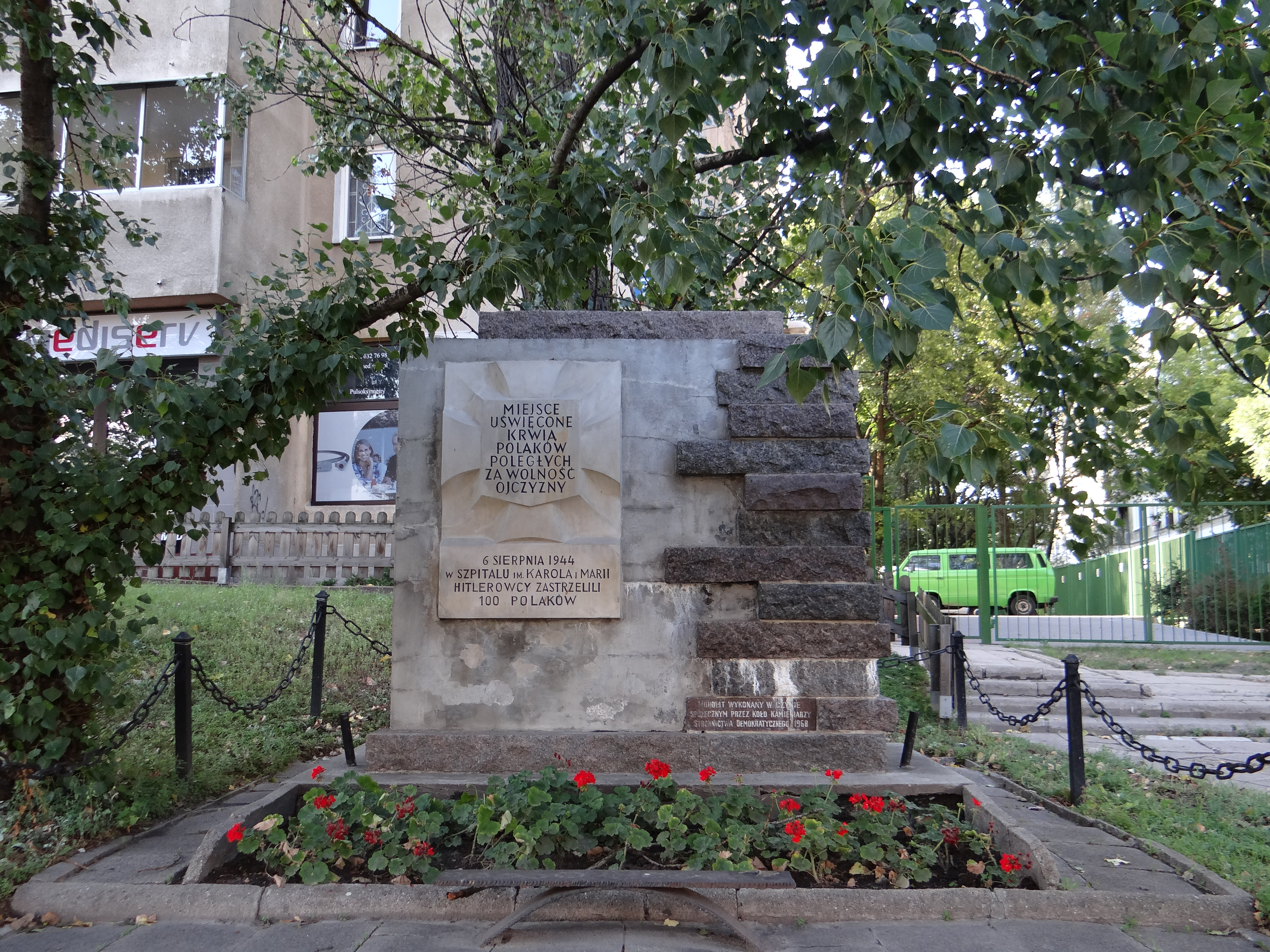 34/36 Leszno Street - place of remembrance